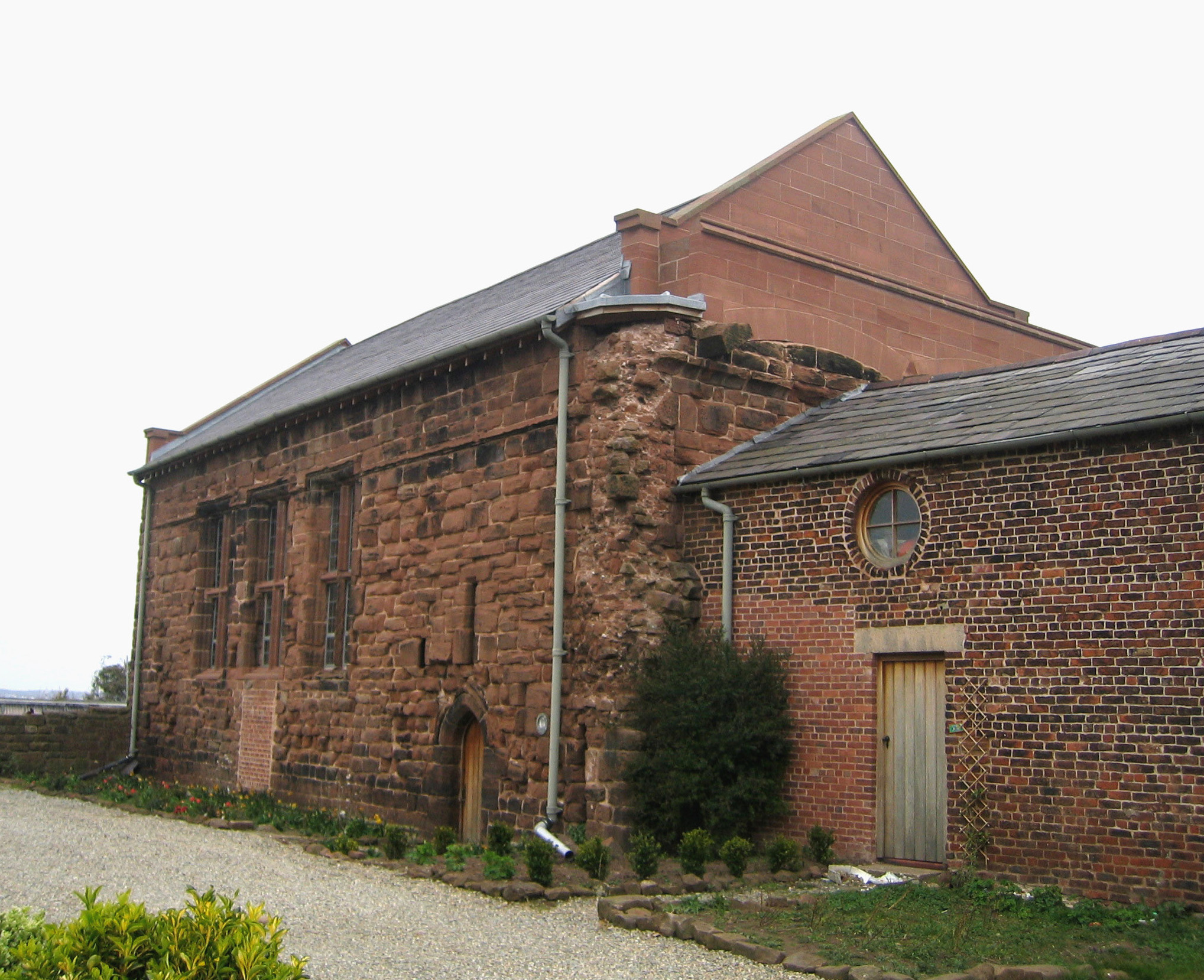 Photograph of Ince Manor Hall